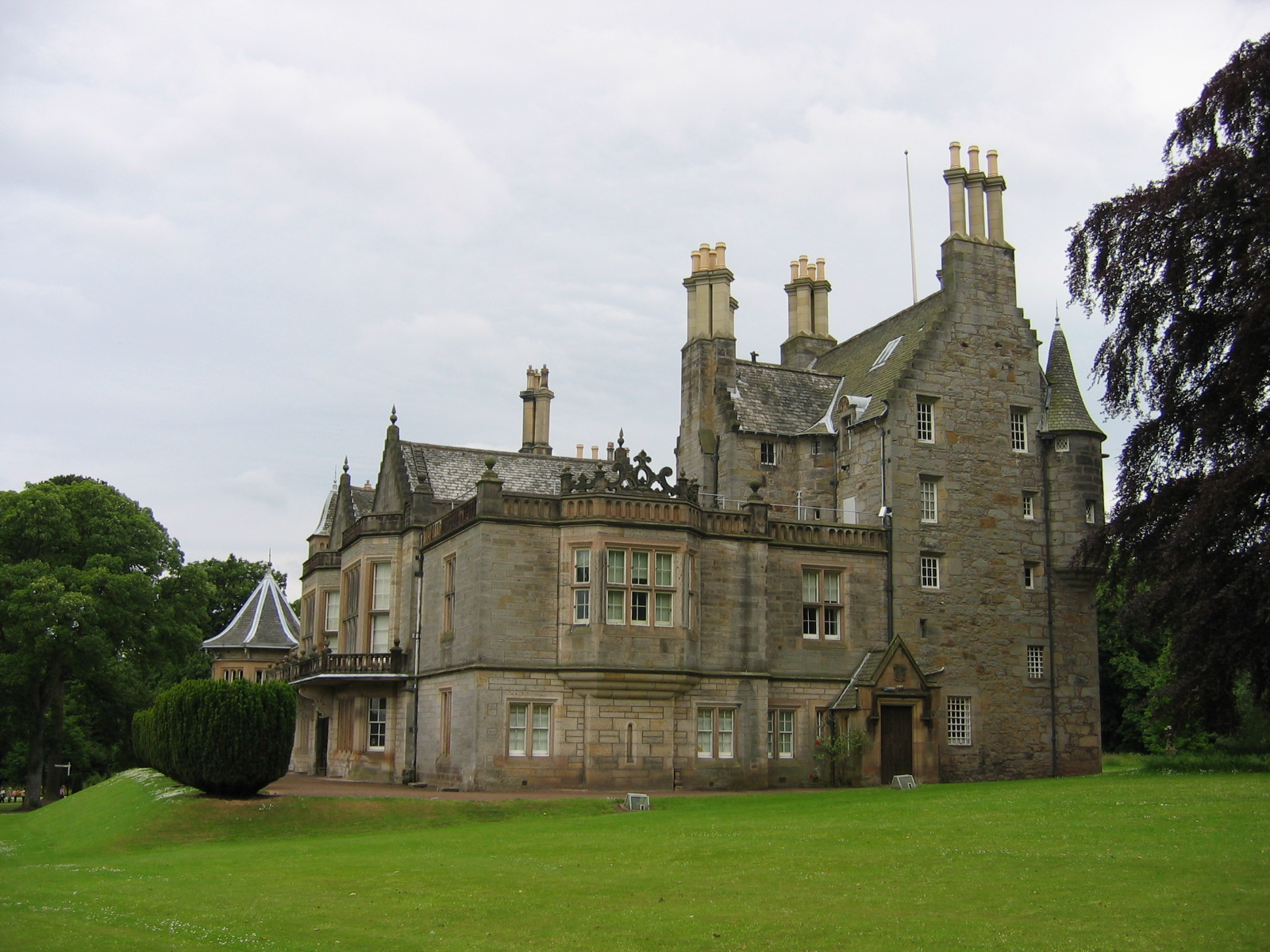 Lauriston Castle, Edinburgh. West facade.